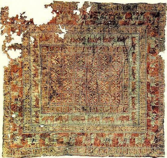 Pazyryk carpet, 5th century BC. Discovered in Pazyryk, Siberia.